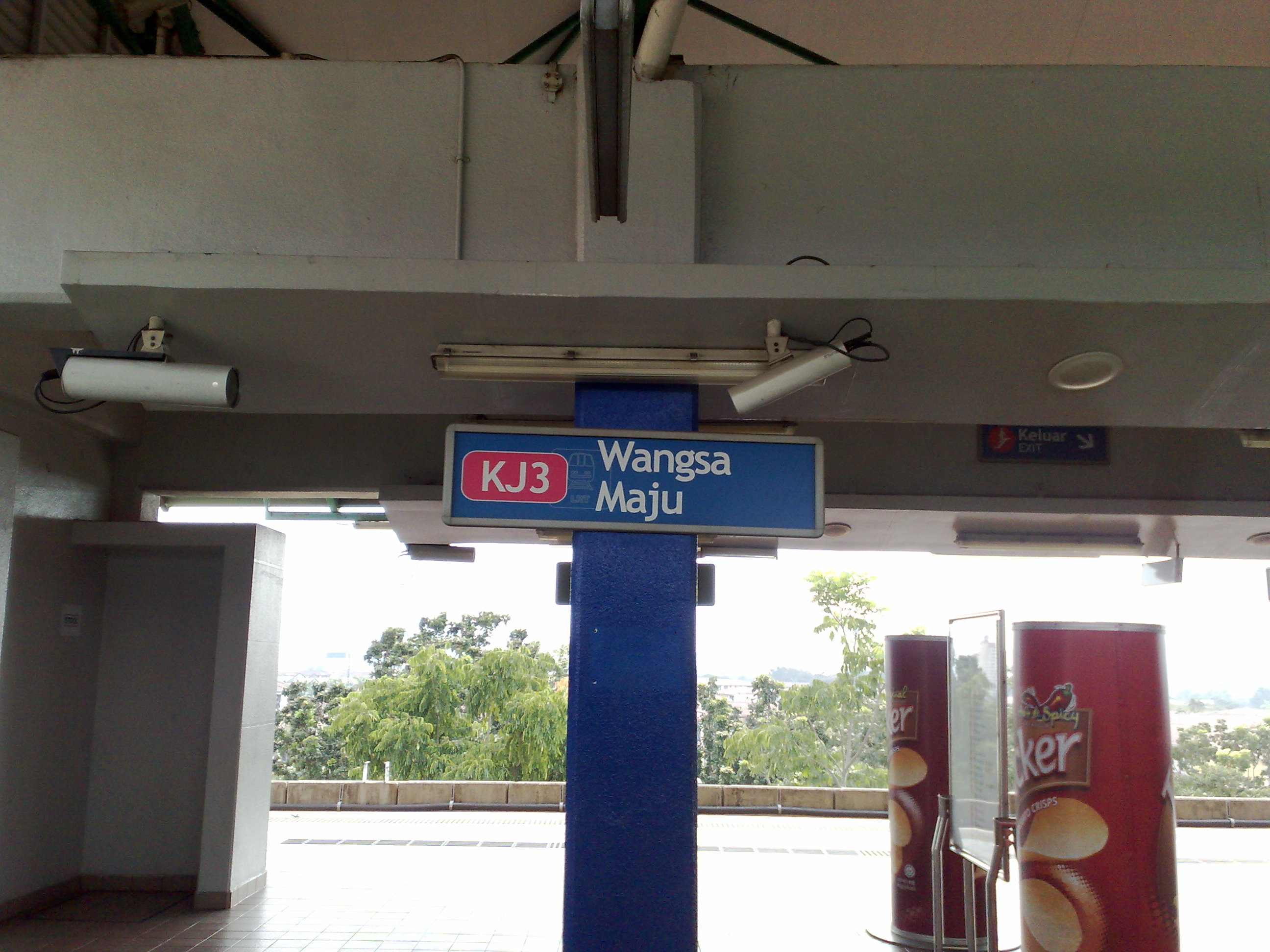 Wangsa Maju LRT